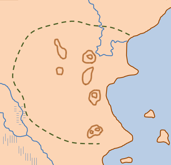 Map of the area of Gobustan State Reserve of Rock Art (Azerbaijan)